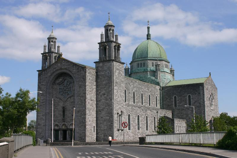 Cathedral of Our Lady Assumed into Heaven and St Nicholas